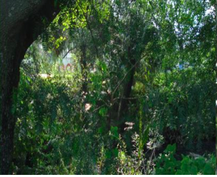 Flora